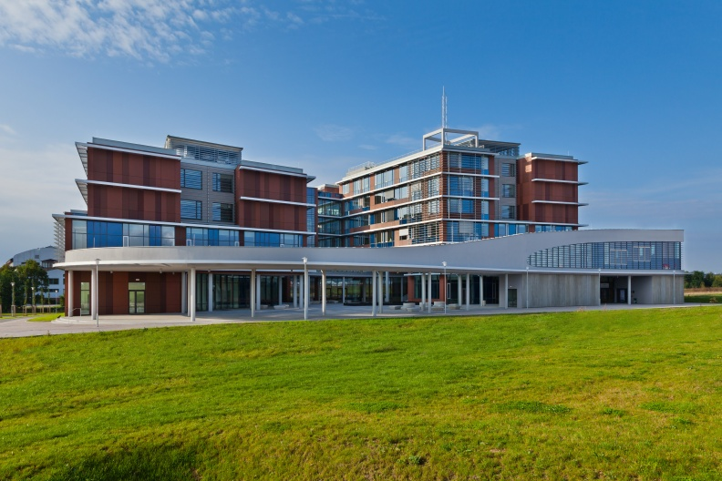 University, Faculty of applied Sciences, University of West Bohemia